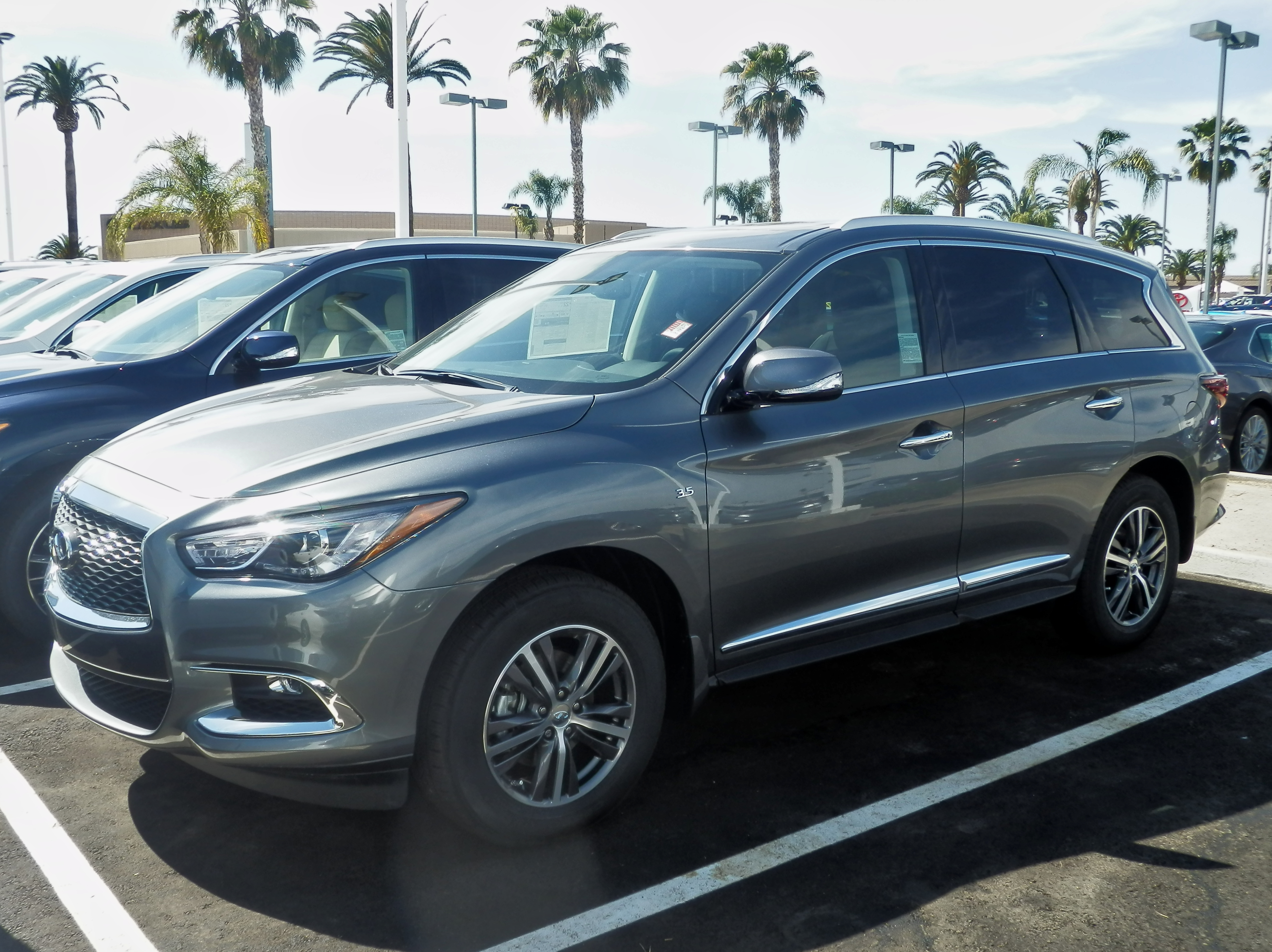 Infiniti QX60 in Bakersfield